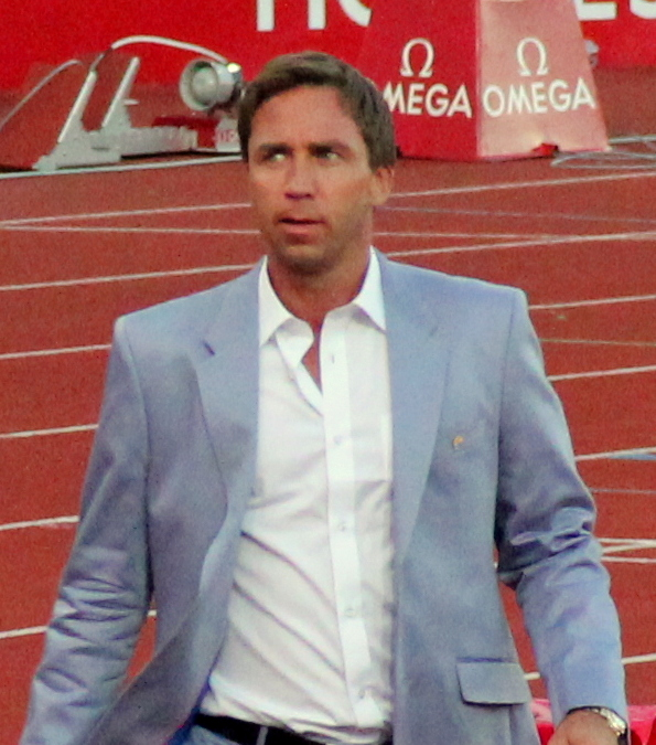 Steinar Hoen, at Bislett Games 2012